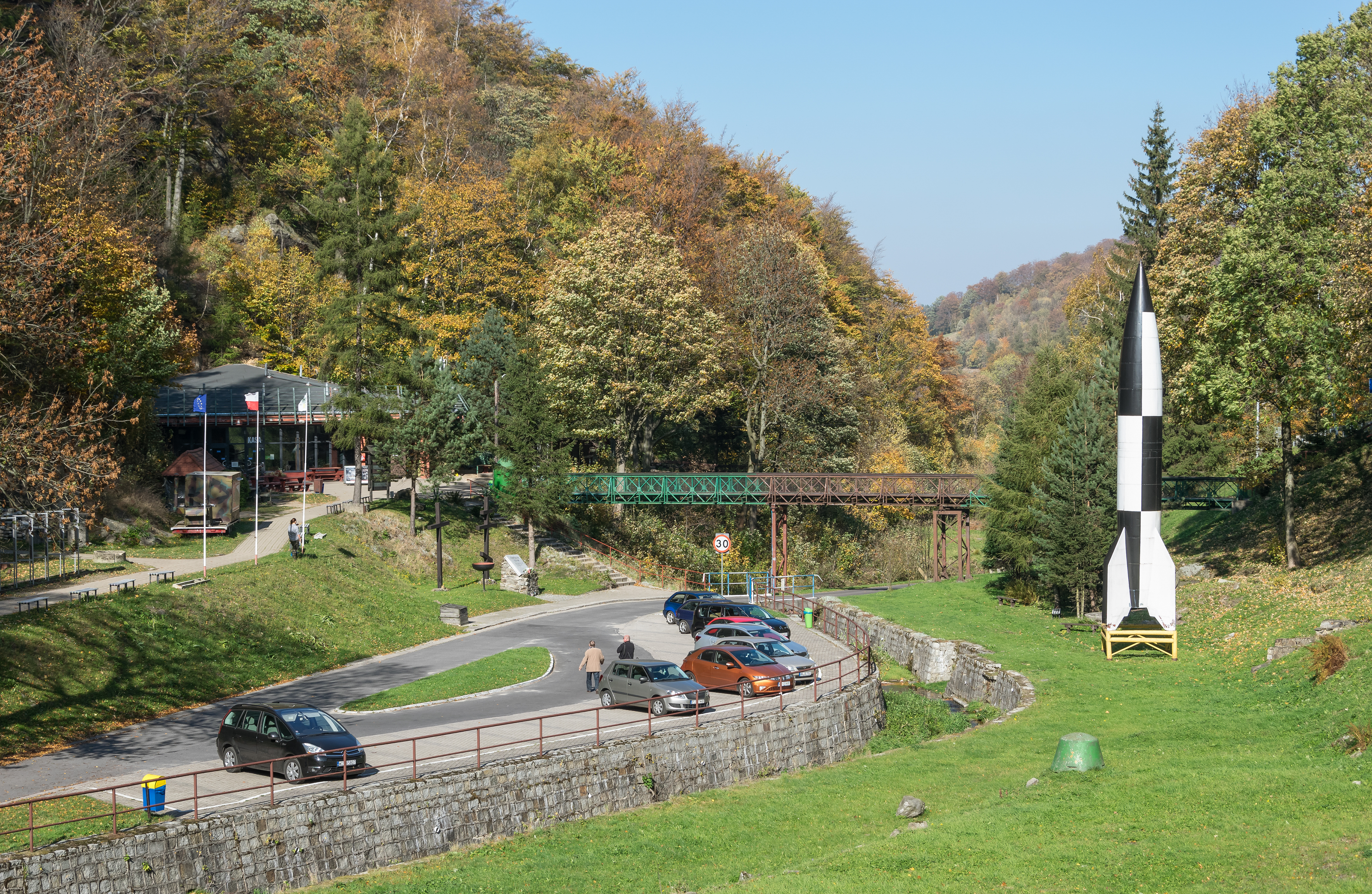 Project Riese, Complex Rzeczka, entrance in Walim